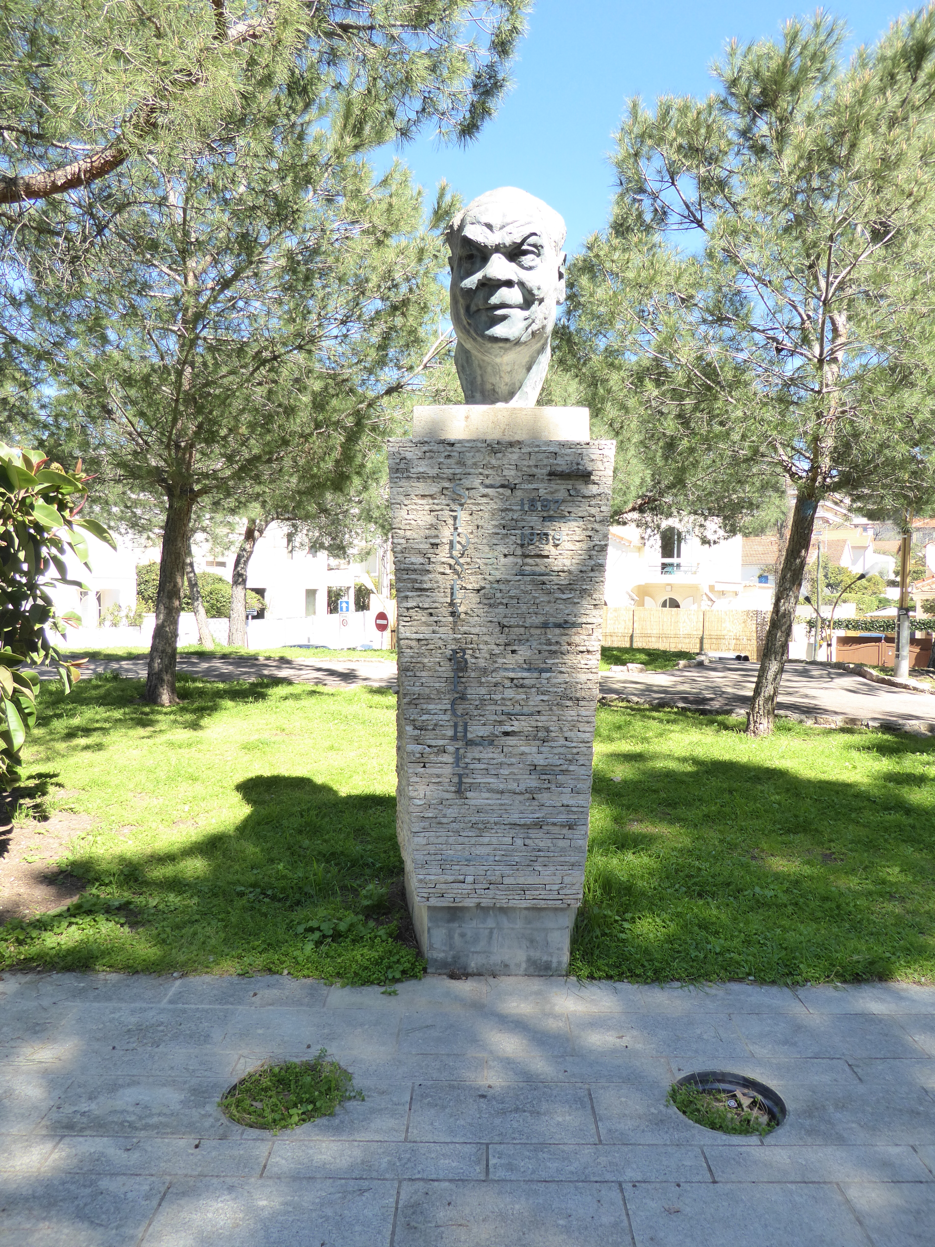 S Bechet à Juan